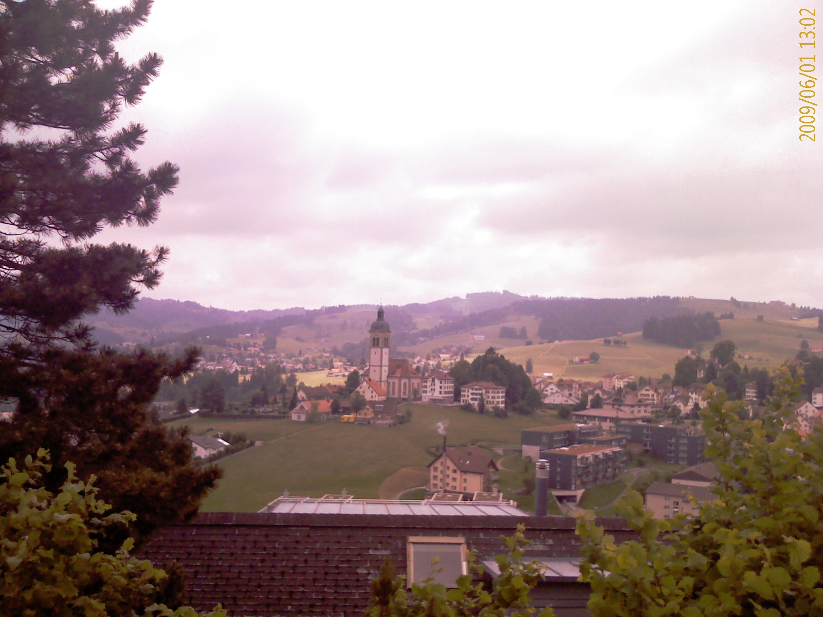 Speicher, view from Vögelinsegg, canton of Appenzell Ausserrhoden, SwitzerlandEsperanto: Speicher vido ek de Vögelinsegg, Kantono Apencelo Ekstera, Svislando